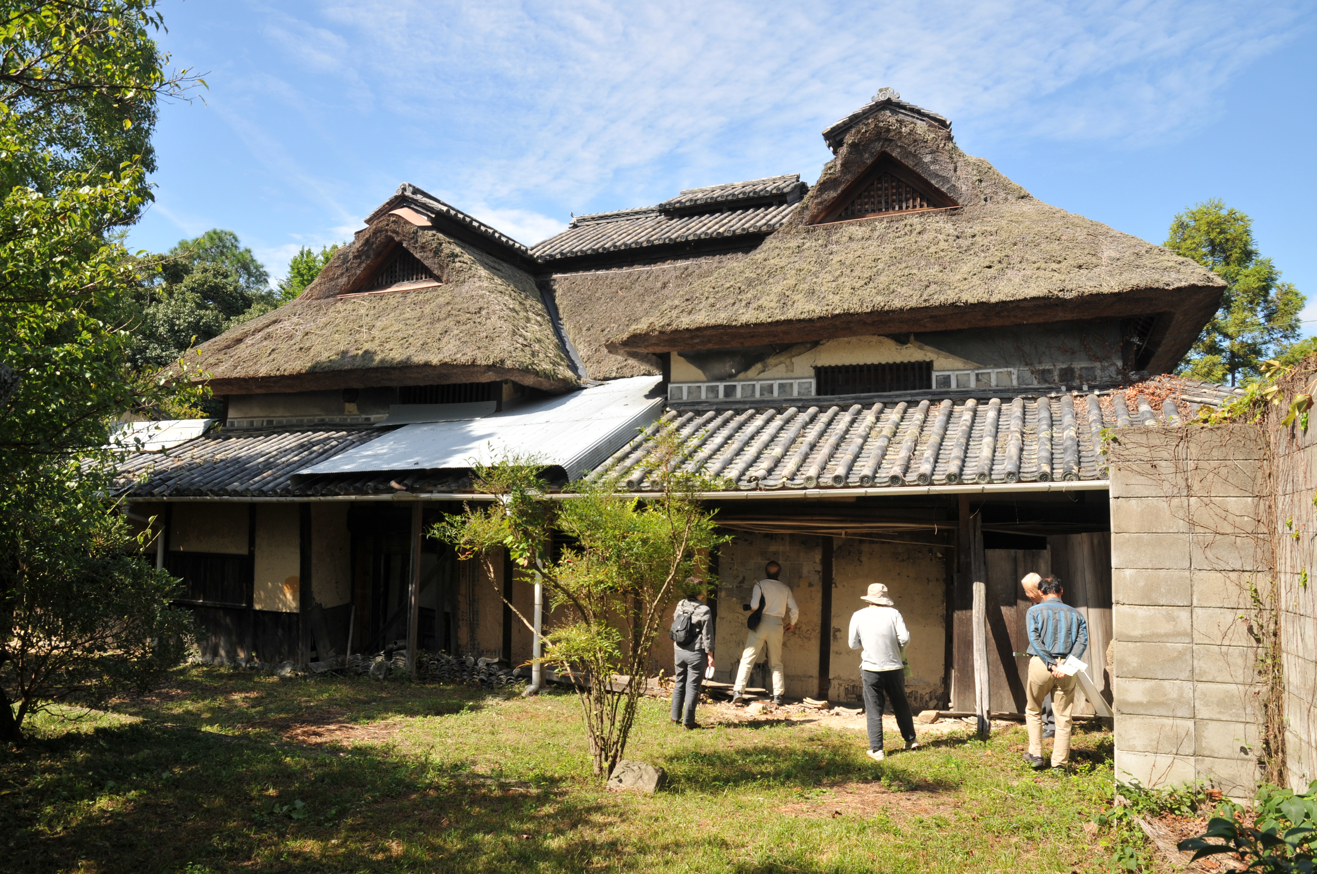 Main house, Former Ōkuni House